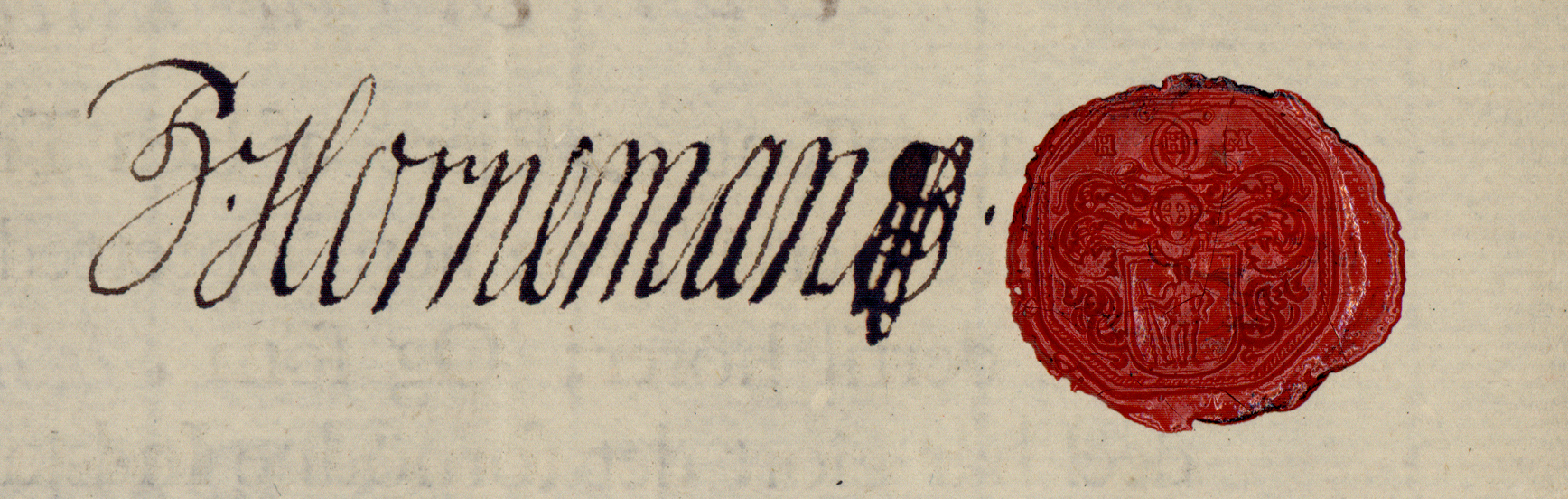 comes later